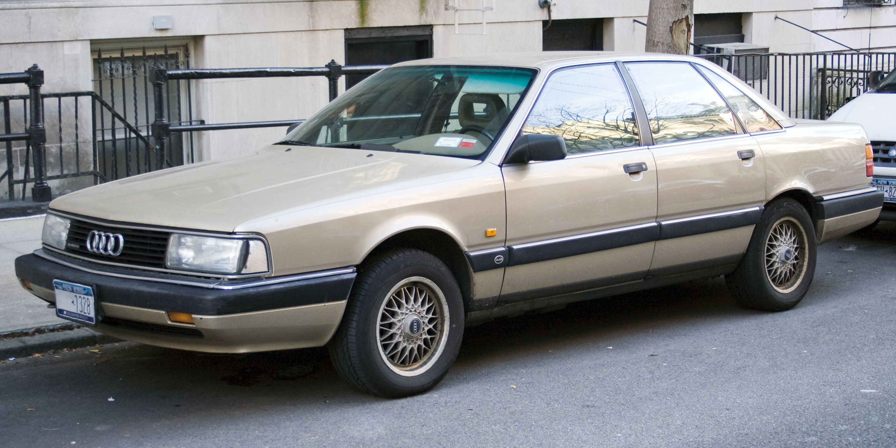 US market, 1991 Audi 200 Quattro 20V Turbo with a five-speed manual transmission. In addition to power everything and standard ABS brakes, this particular car also has a driver's side airbag.